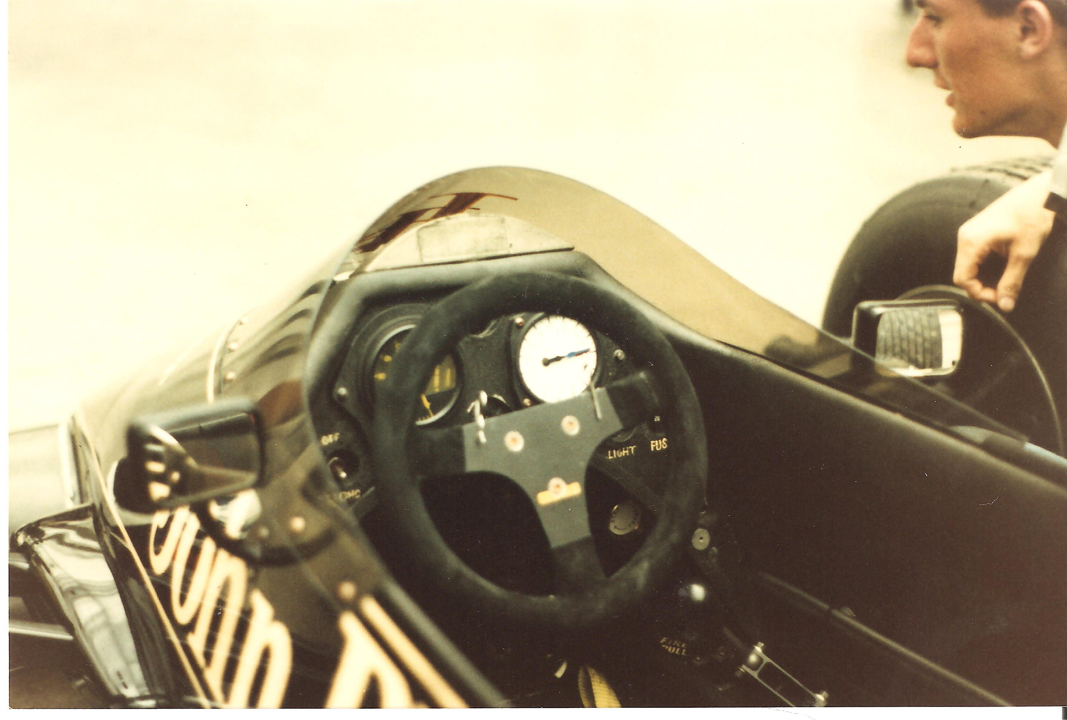 Lotus 95T F1 car cockpit in the garage at the Detroit Grand Prix 1984.